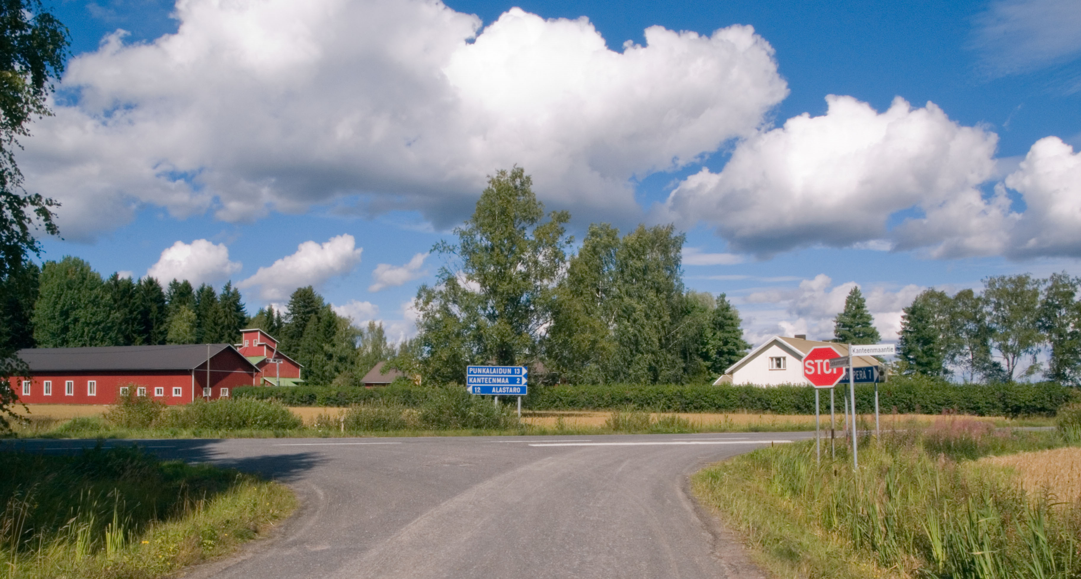 Intersection of the regional road 231 and Seikunmaantie road in Loimaa, Finland, seen from Seikunmaantie. Alastaro and loimaa are to the left, and Kanteenmaa and Punkalaidun to the right.